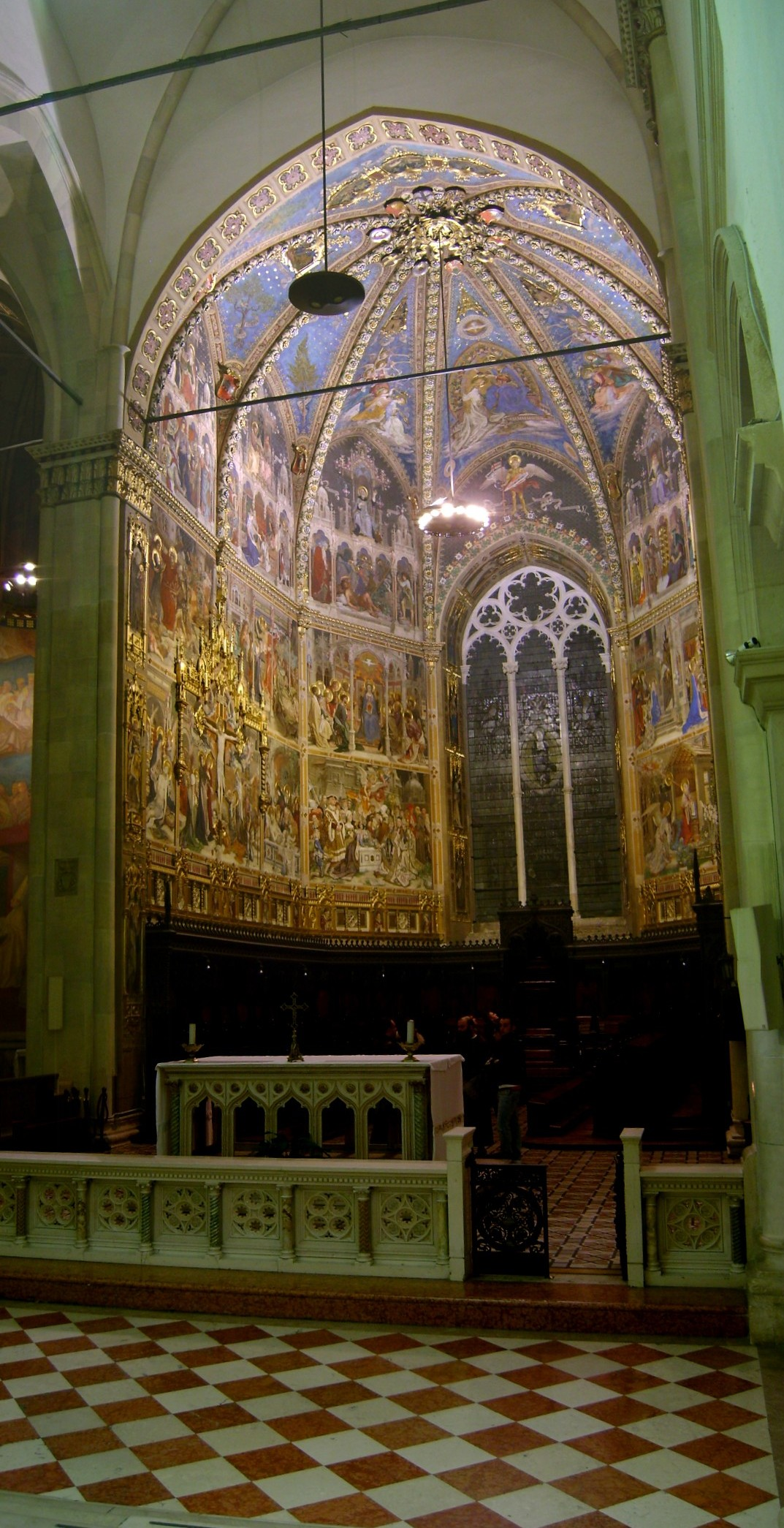 The apse of the sanctuary of Santa Casa, Loreto, province of Ancona, Marche